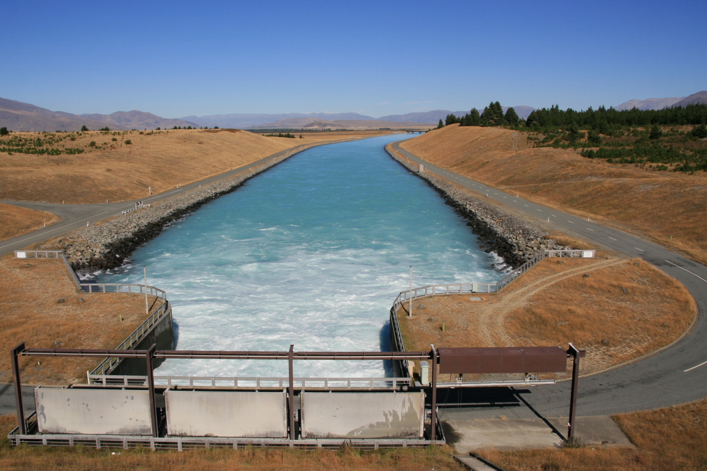 A hydro canal running from Lake Pukaki, New Zealand. Looking southwestwards from the road on the crown of the lake dam.